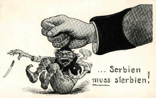 Serbien muss sterbien! ("Serbia must die!"), an old Austrian propaganda caricature, after the assassination of Archduke Franz Ferdinand of Austria in 1914. Image showing the Austrian hand crushing a Serbian holding a bomb and dropping a knife. Srpskohrvatski / српскохрватски: Serbien muss sterbien! ("Srbija mora umreti!"), stara austrijska propagandna karikatura, nakon atentata na austrijskog nadvojvodu Franca Ferdinanda 1914. Slika prikazuje austrijsku ruku kako smrskava srbina koji drzi bombu i ispusta noz.